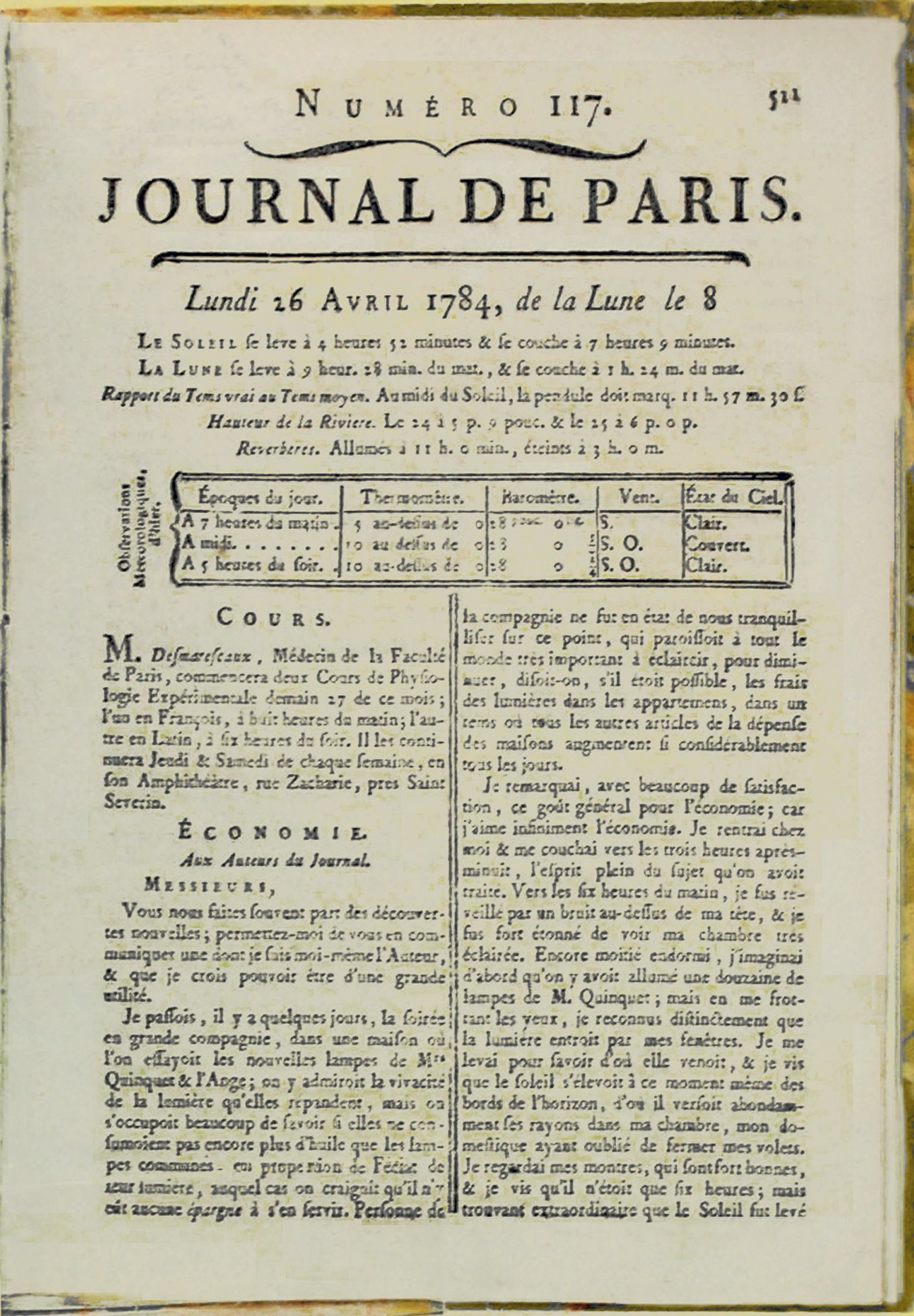 First page of Benjamin Franklin's anonymous letter to the editors of the Journal de Paris, April 26, 1784. The letter is a satire proposing various methods to awaken Parisians early in the morning in order to save money on candles, and presages the idea of daylight saving time. The letter is untitled and appears in the "Économie" section of the journal. The original letter was in English but this, its first publication, is a French translation.